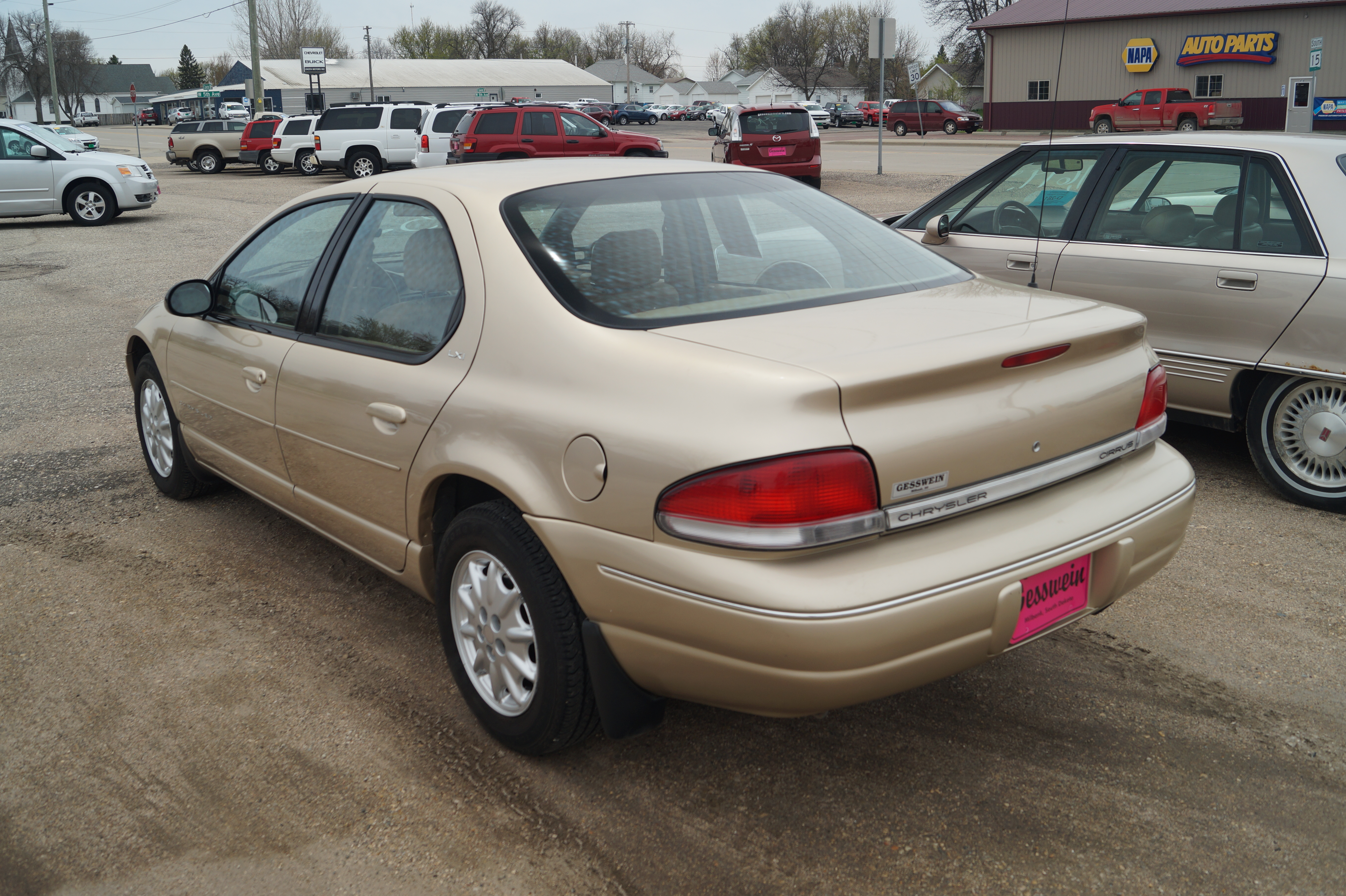 Click here for more car pictures at my Flickr site.